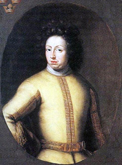 King Carl XI of Sweden (1655-1697)